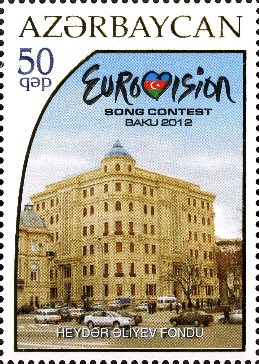 "Eurovision - 2012" song contest